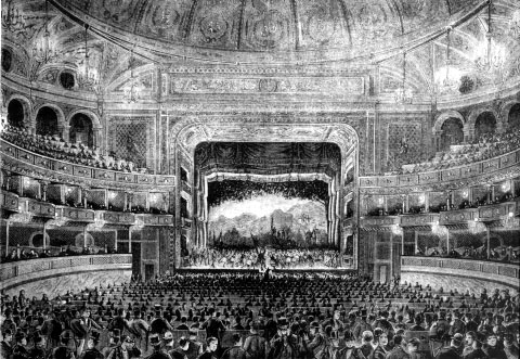 Description: A late 19th century engraving depicting the interior of the Teatro Dal Verme in Milan